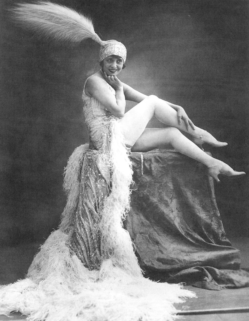 Mistinguett (1875-1956), French singer of variety. Paris, Moulin-Rouge.